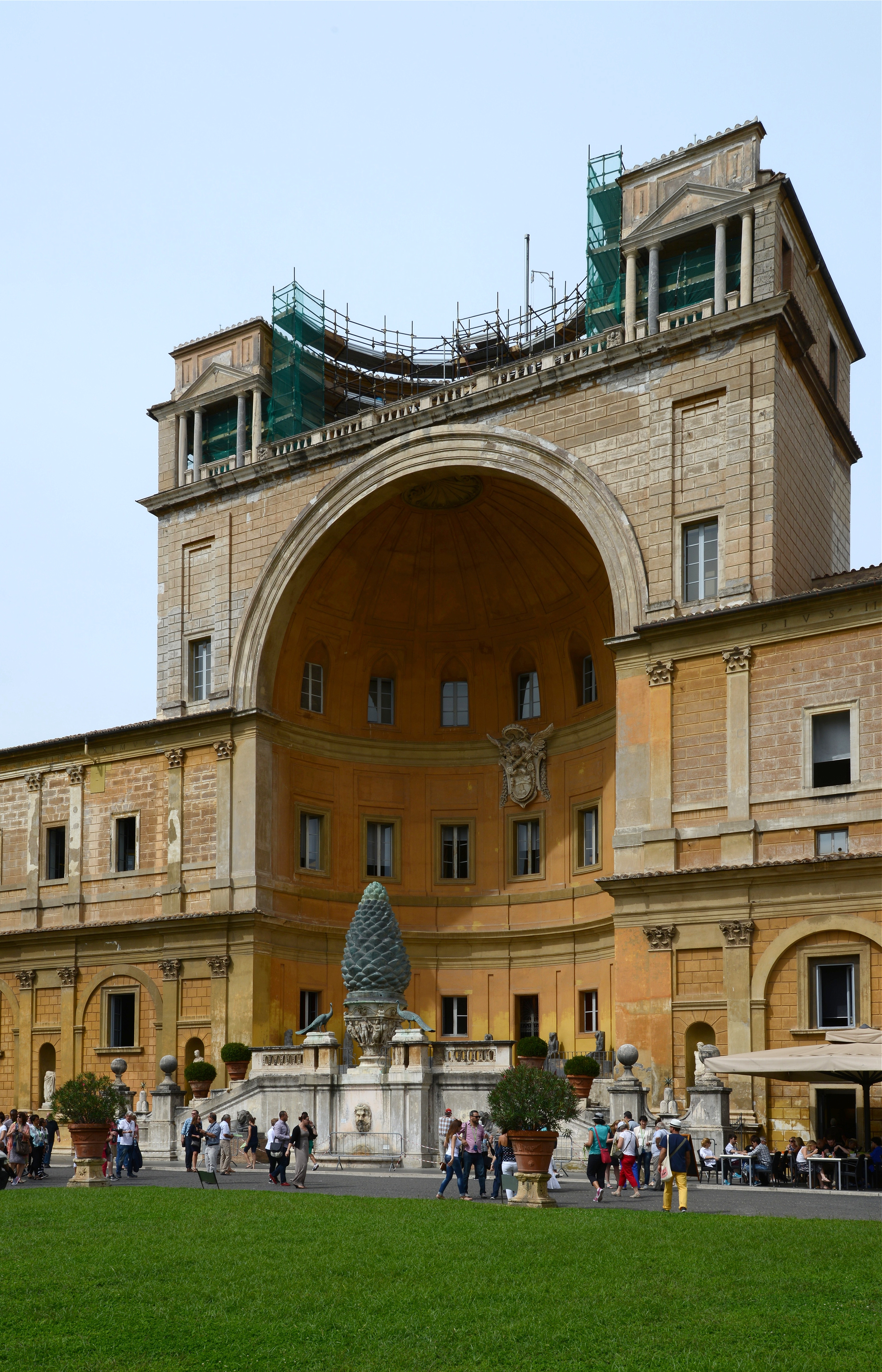 Architectural detail of the Pinecone Courtyard, by Donato Bramante. Vatican City, Rome.